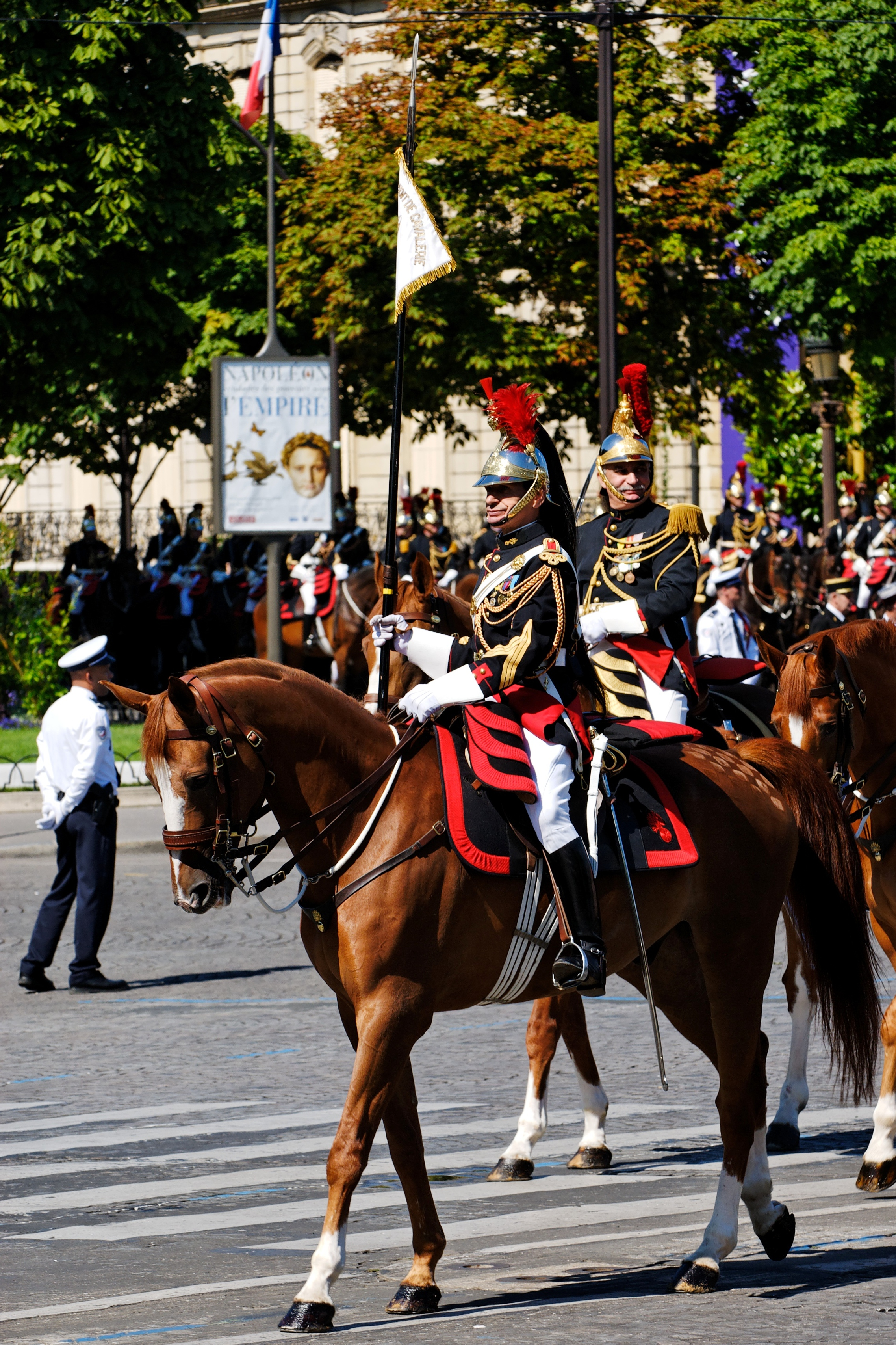 Lancer of the Cavalry Regiment of the Republican Guard, Bastille Day 2008 military parade on the Champs-Élysées, Paris.